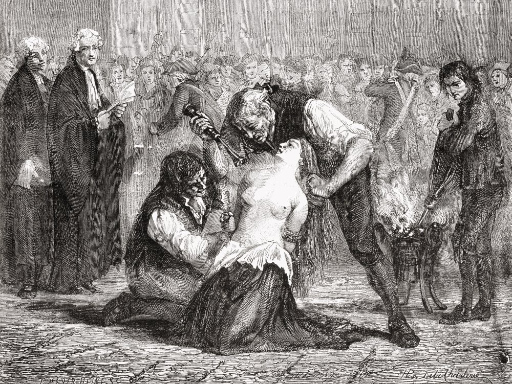 Jeanne de la Motte being branded. Engraved by Meyer-Heine after Hippolyte de la Charlerie.